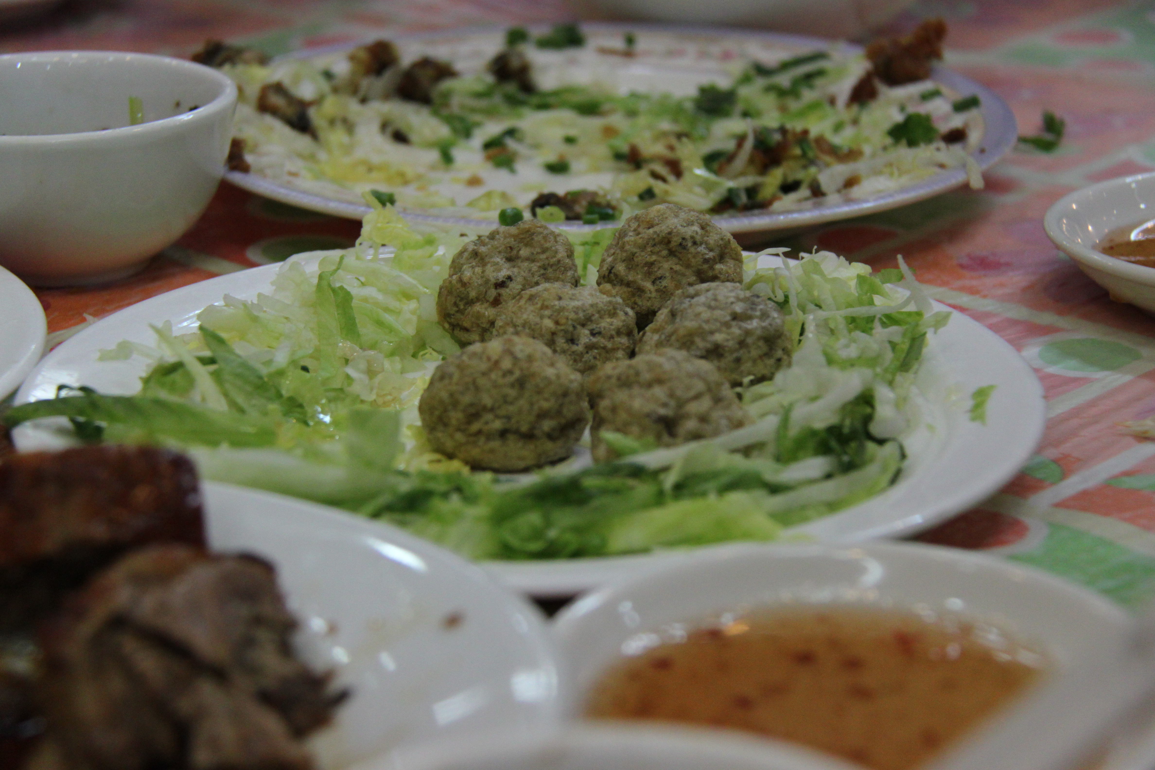 Deep Fried Dace Fish Ball